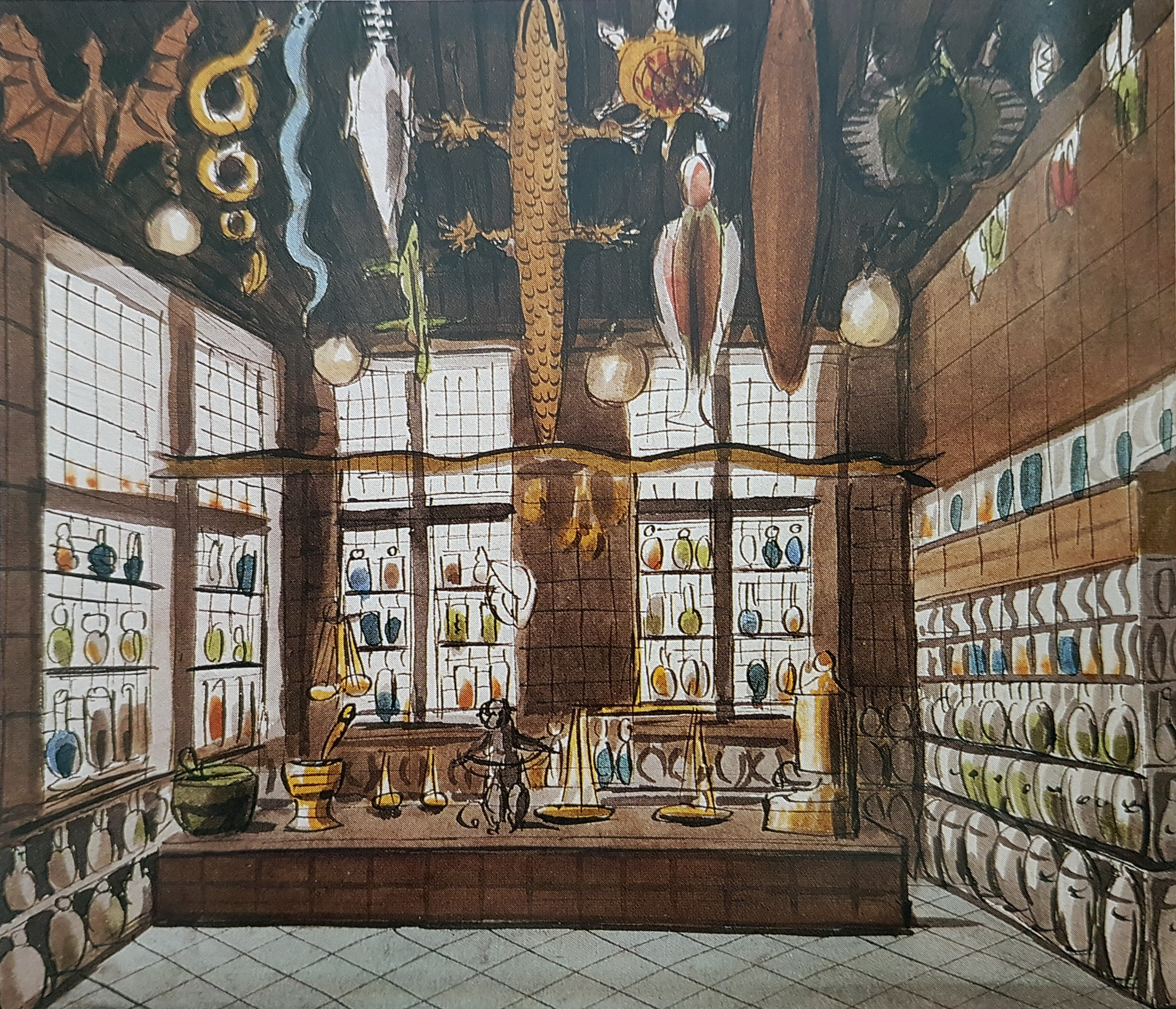 Interior of a pharmacy in Maastricht, the Netherlands. Drawing by local artist and amateur historian Philippe van Gulpen (1847). Van Gulpen had been a pharmacist himself.